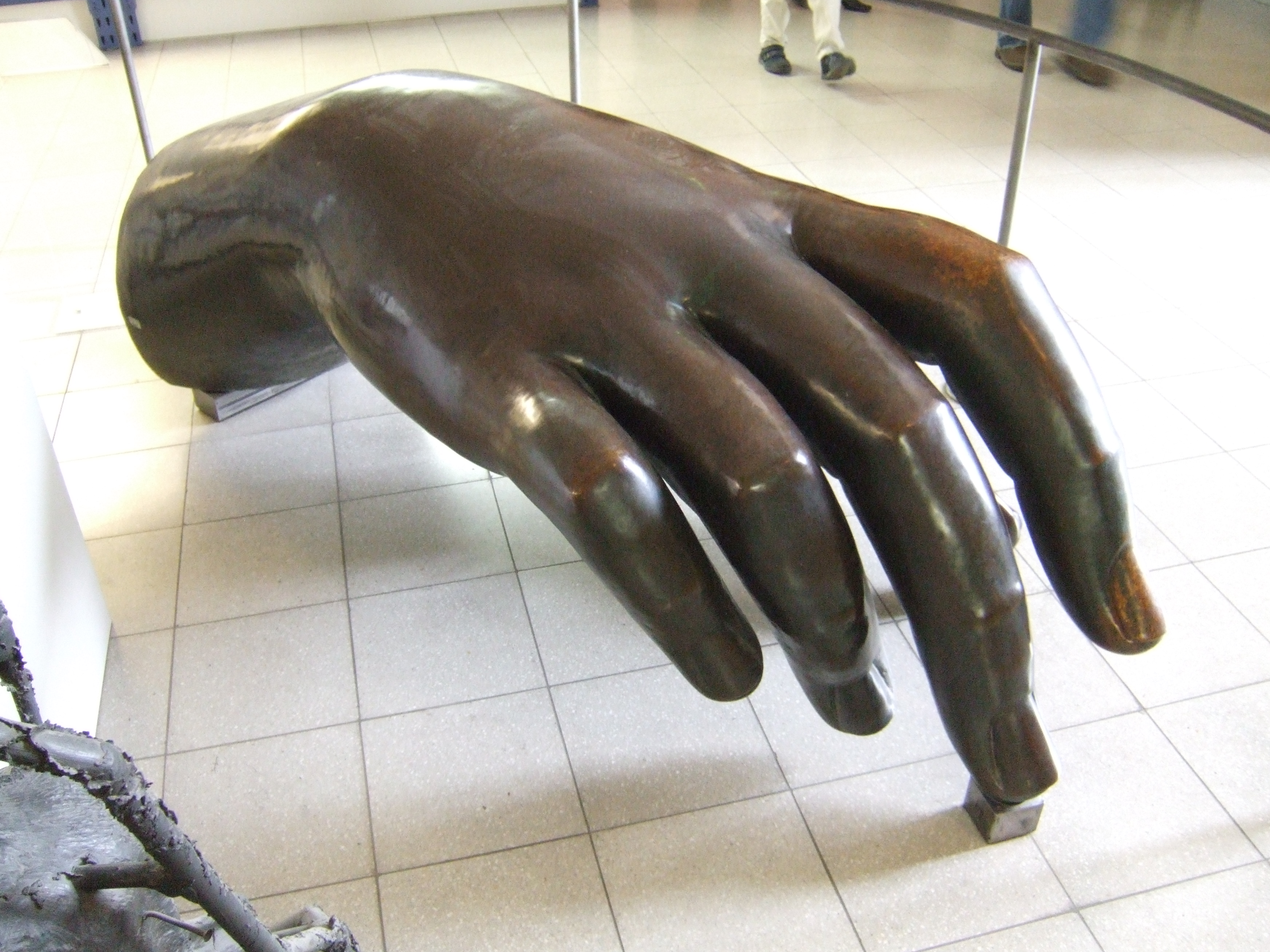 Bavaria statue: remake of the right hand (1907) in the Deutsches Museum, Munich